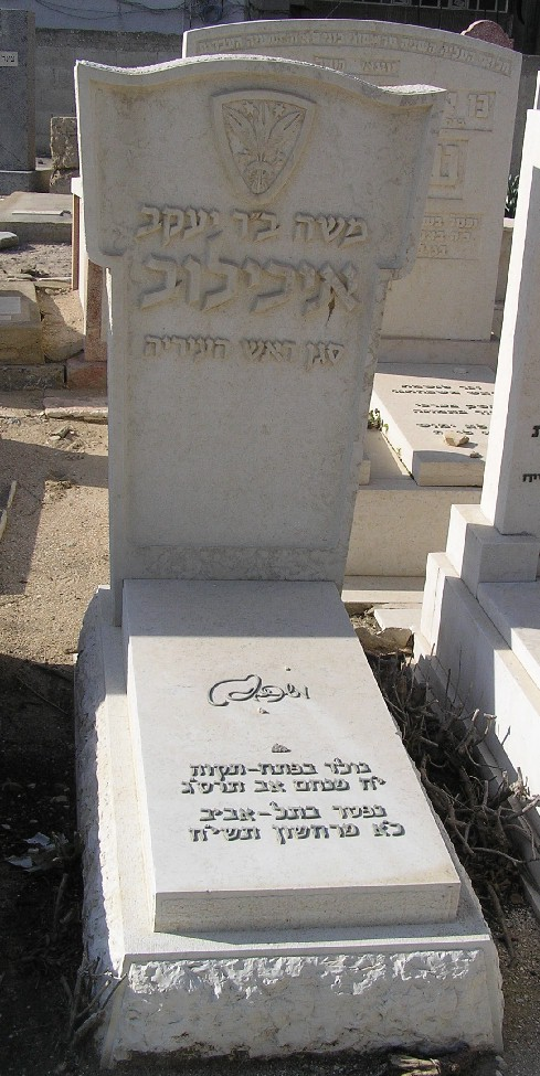 Tomb of Moshe Ikhilov (deputy mayor of Tel Aviv) in Trumpeldor cemetery in Tel Aviv photographed by Eman, Fecruary 2006